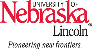 University of Nebraska wordmark